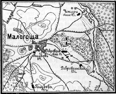 Battle of Małogoszcz map